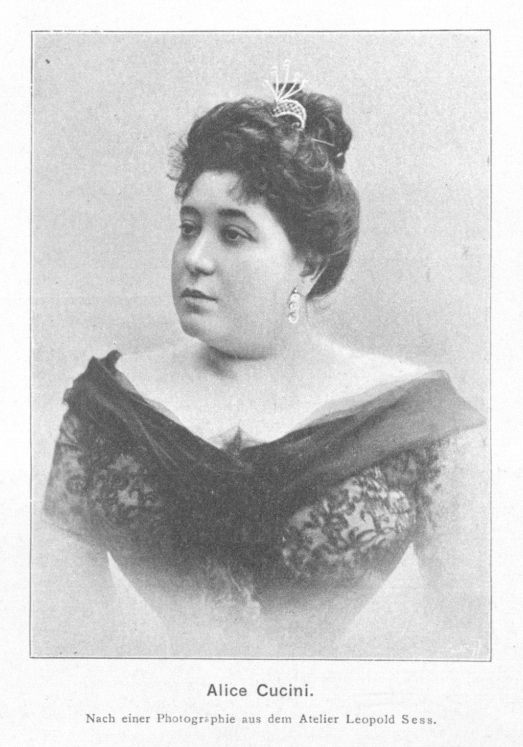 Photo of Alice Cucini (1870-1949), Italian opera singer.